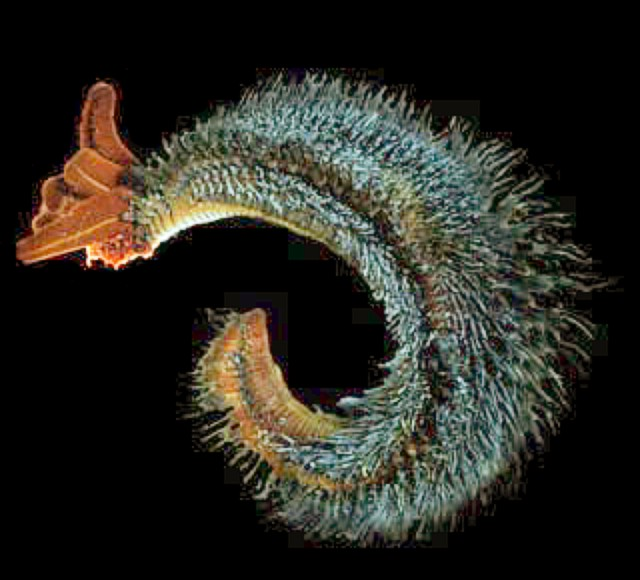 Alvinella pompejana or Pompeii worm, able to survive temperatures as high as 176°F. A coating of protective bacteria covers this deep-sea worm's back.